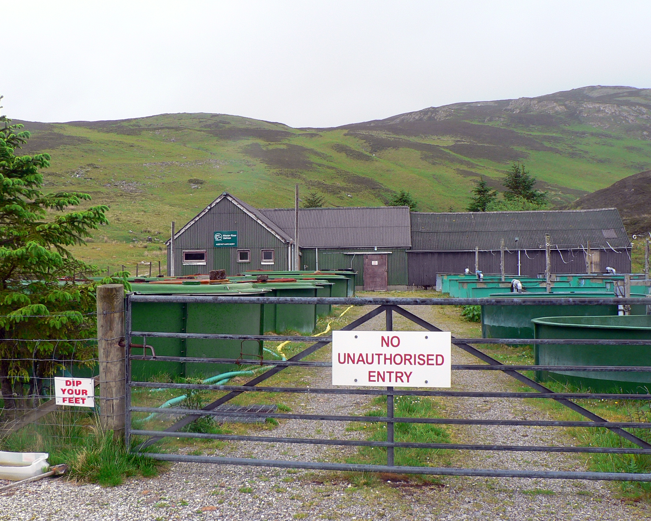 Wester Ross Salmon - Assynt Hatchery, near Inchnadamph, Scotland